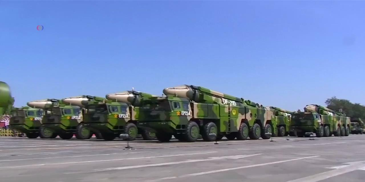 2015 China WWII Parade (screenshot)